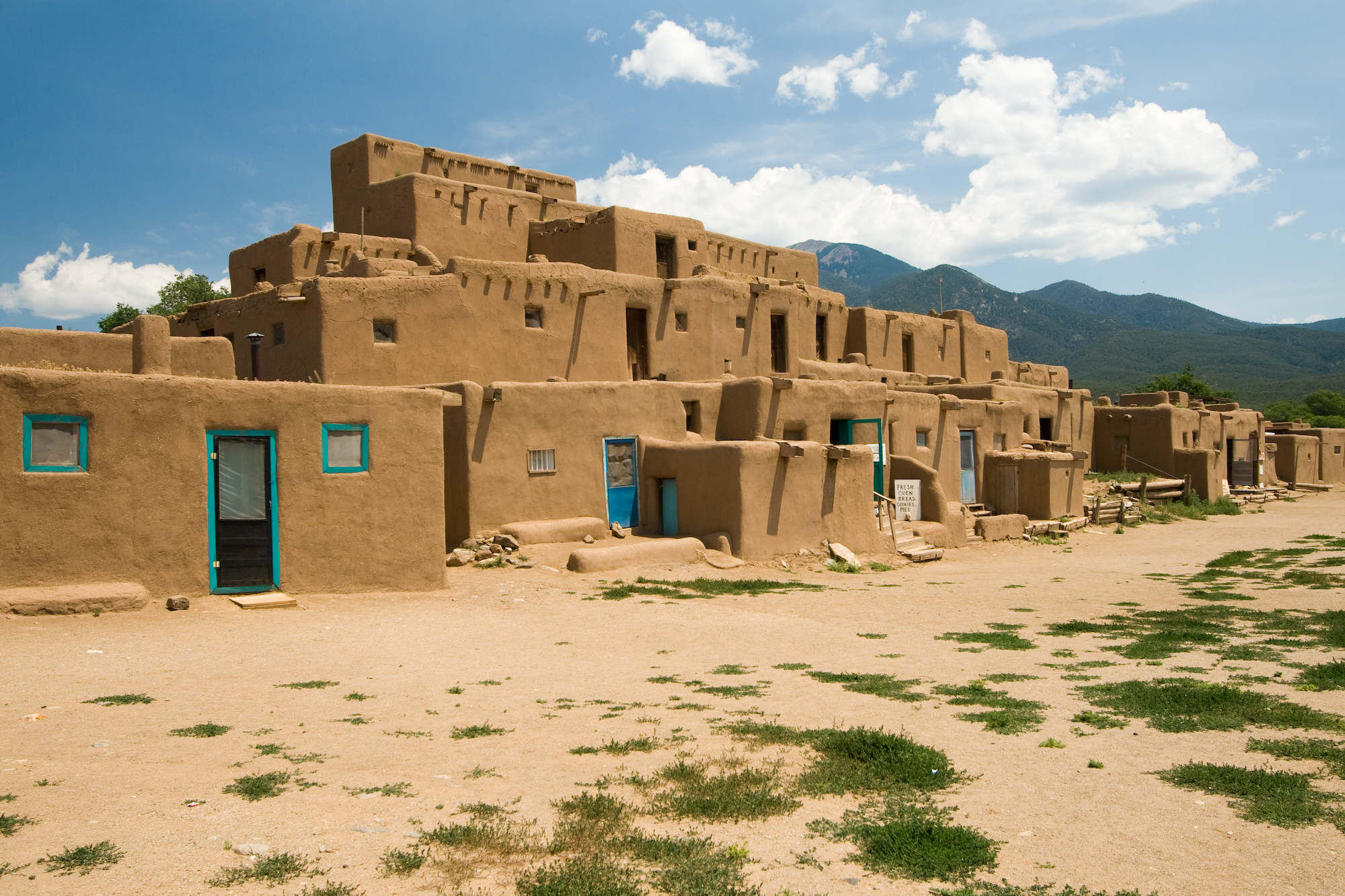 Taos Pueblo multi-storied residential complex of reddish-brown adobe. It was probably built between 1000 and 1450 A.D. Located about 1 mile (1.6 km) north of the modern city of Taos, New Mexico, USA.